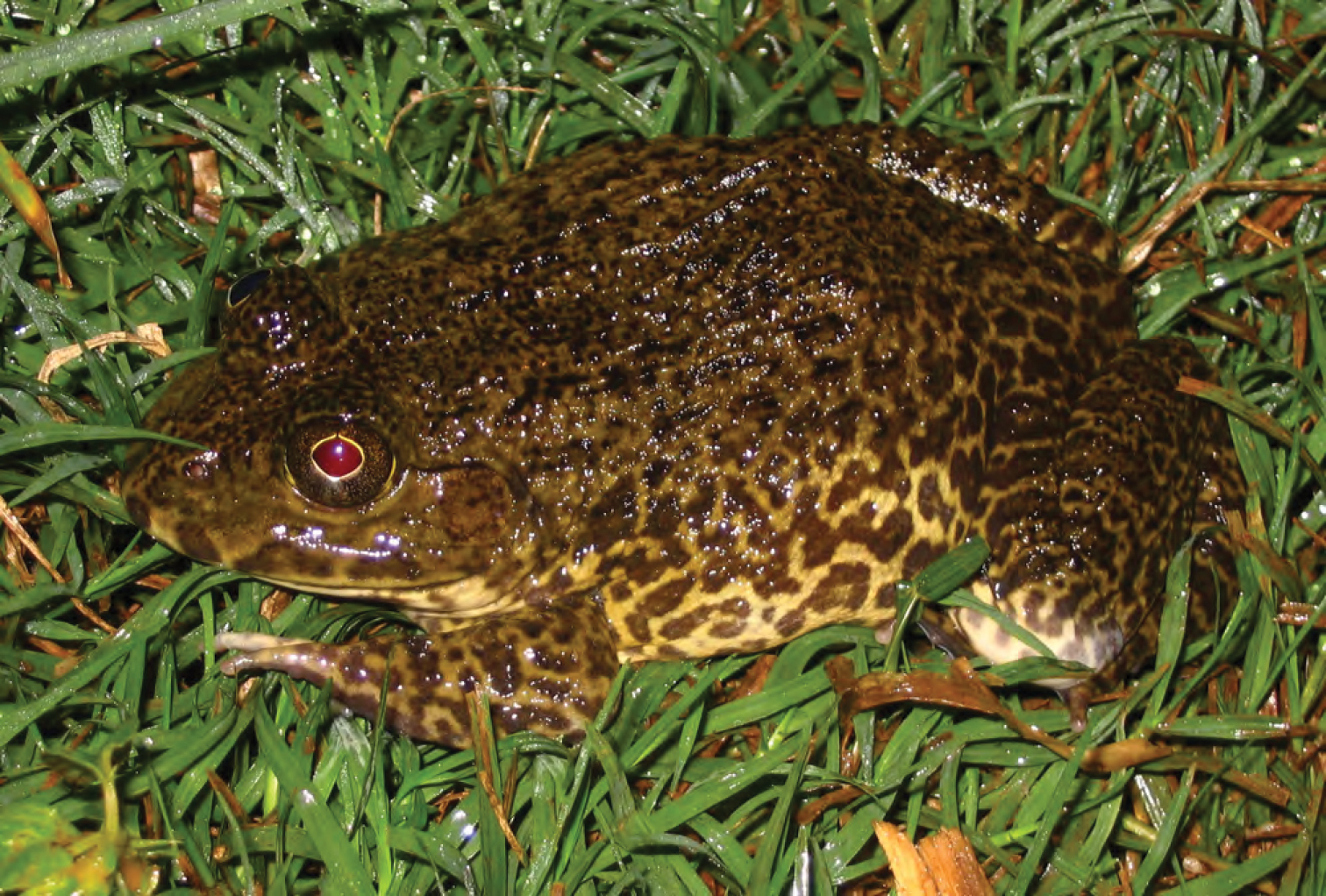 Hoplobatrachus rugulosus from Minanga (ACD 3159, deposited in PNM). Photo ACD.